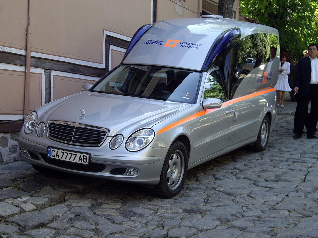 Ambulance of Lozenetz Hospital, Bulgaria Type Binz KTW A 2003 based on Mercedes-Benz W211